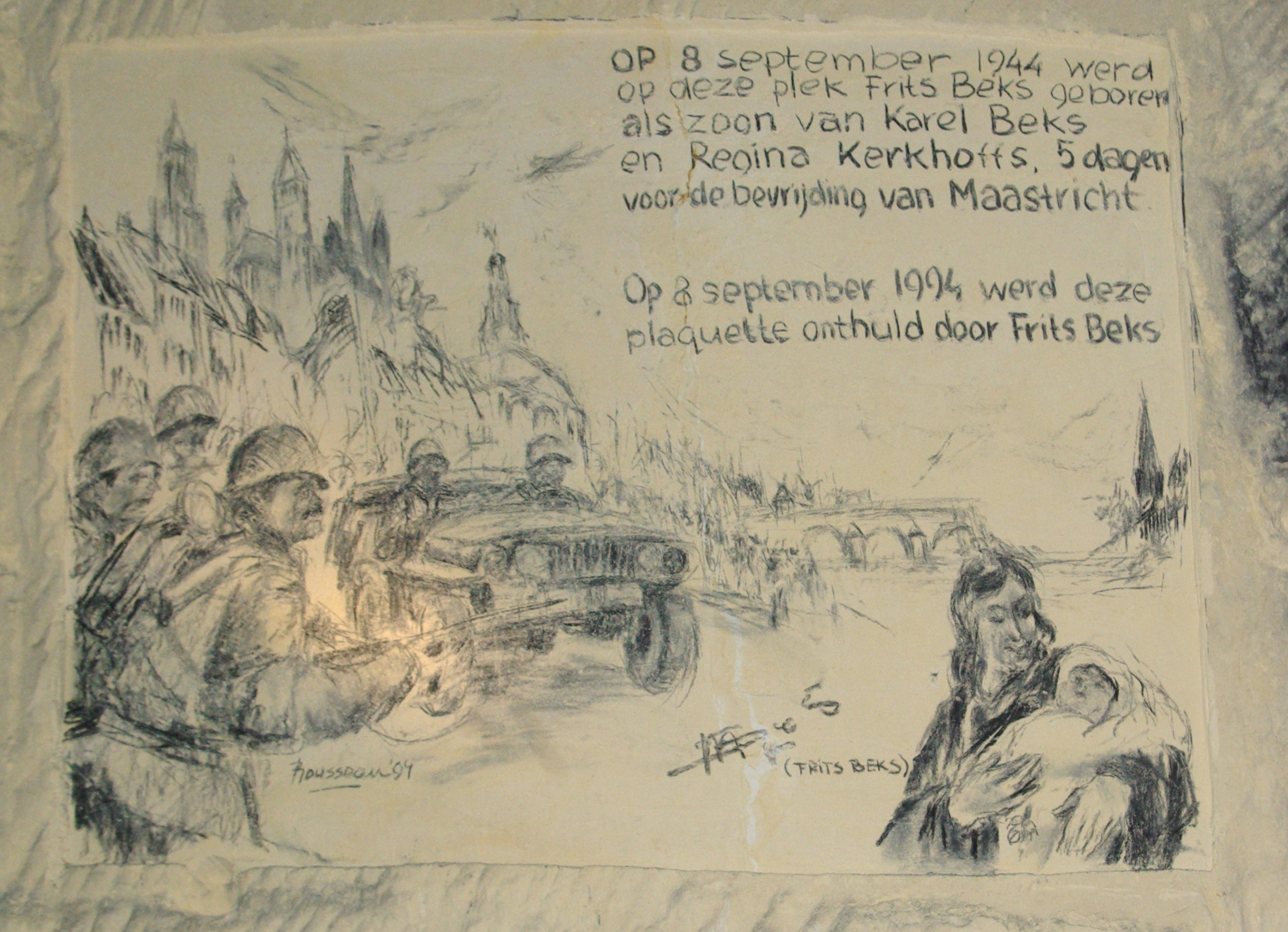 Caves of St. Pieter near Maastricht, the Netherlands